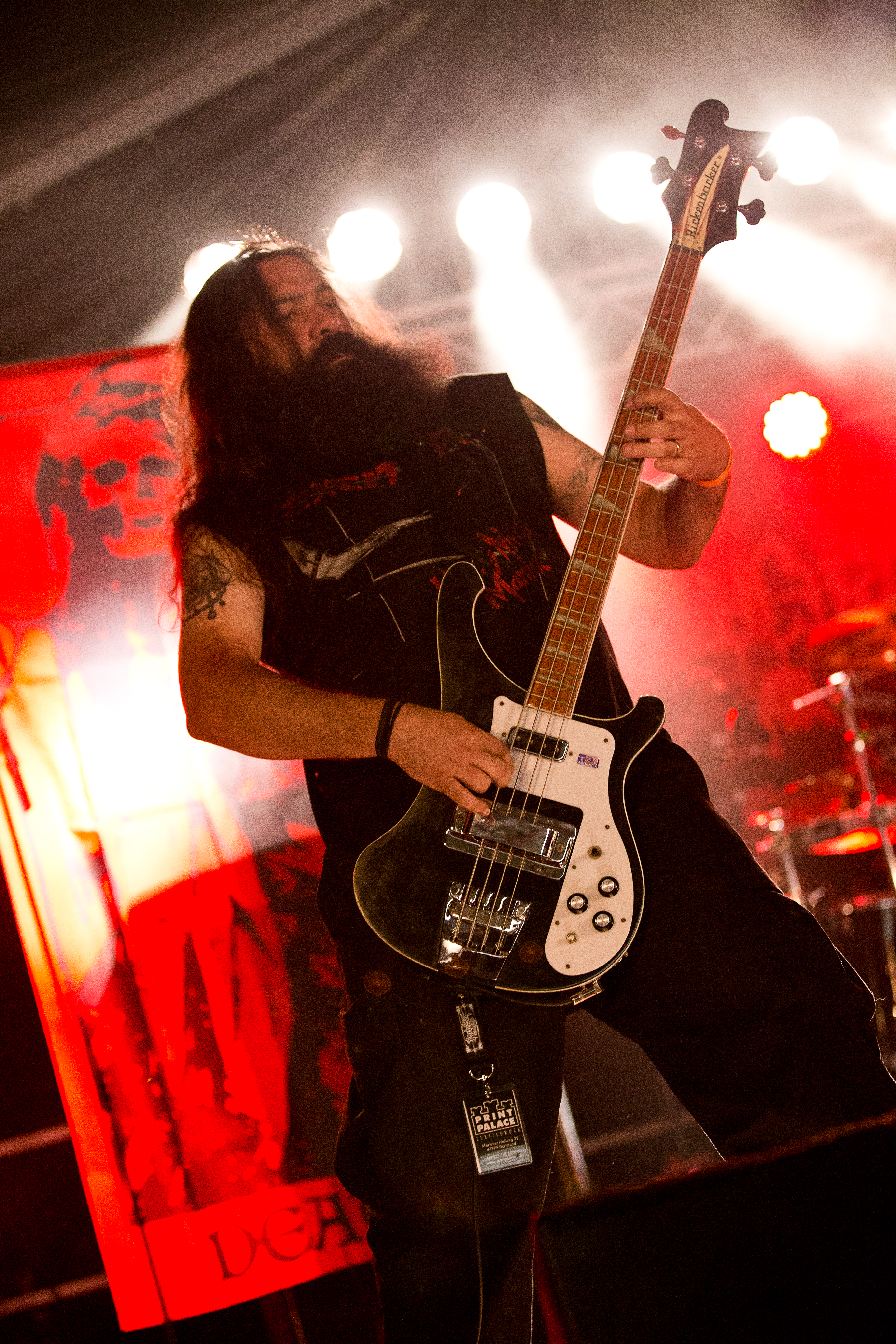 The Spanish death metal band Graveyard at the Party.San Metal Open Air 2016 in Obermehler-Schlotheim/Germany